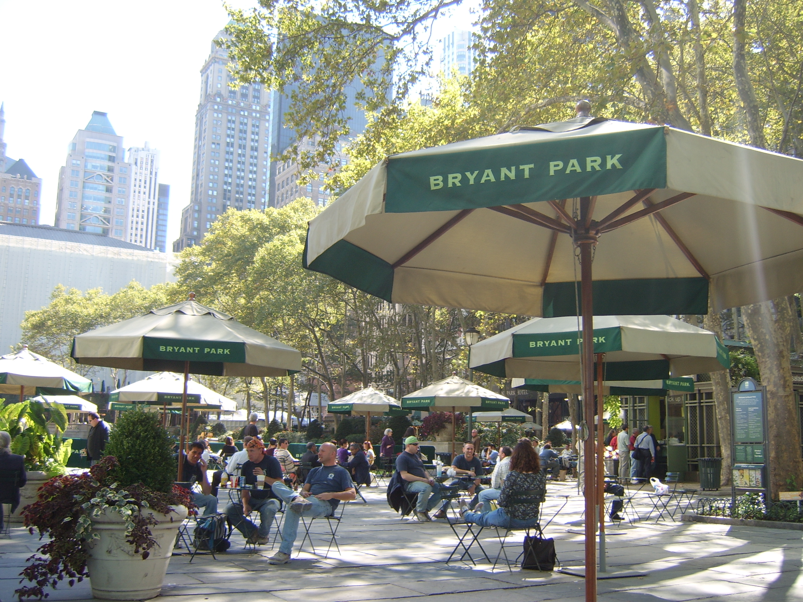 Looking southeast in Manhattan, New York City